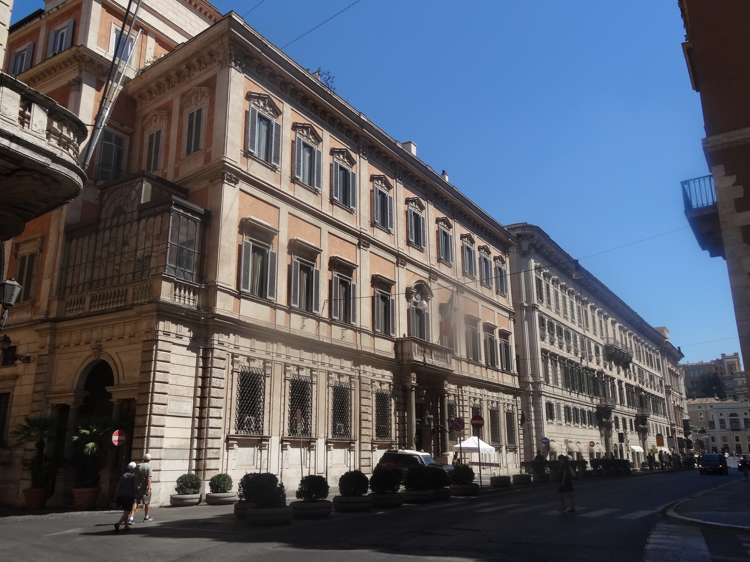 Roma - Via del Plebiscito, 113